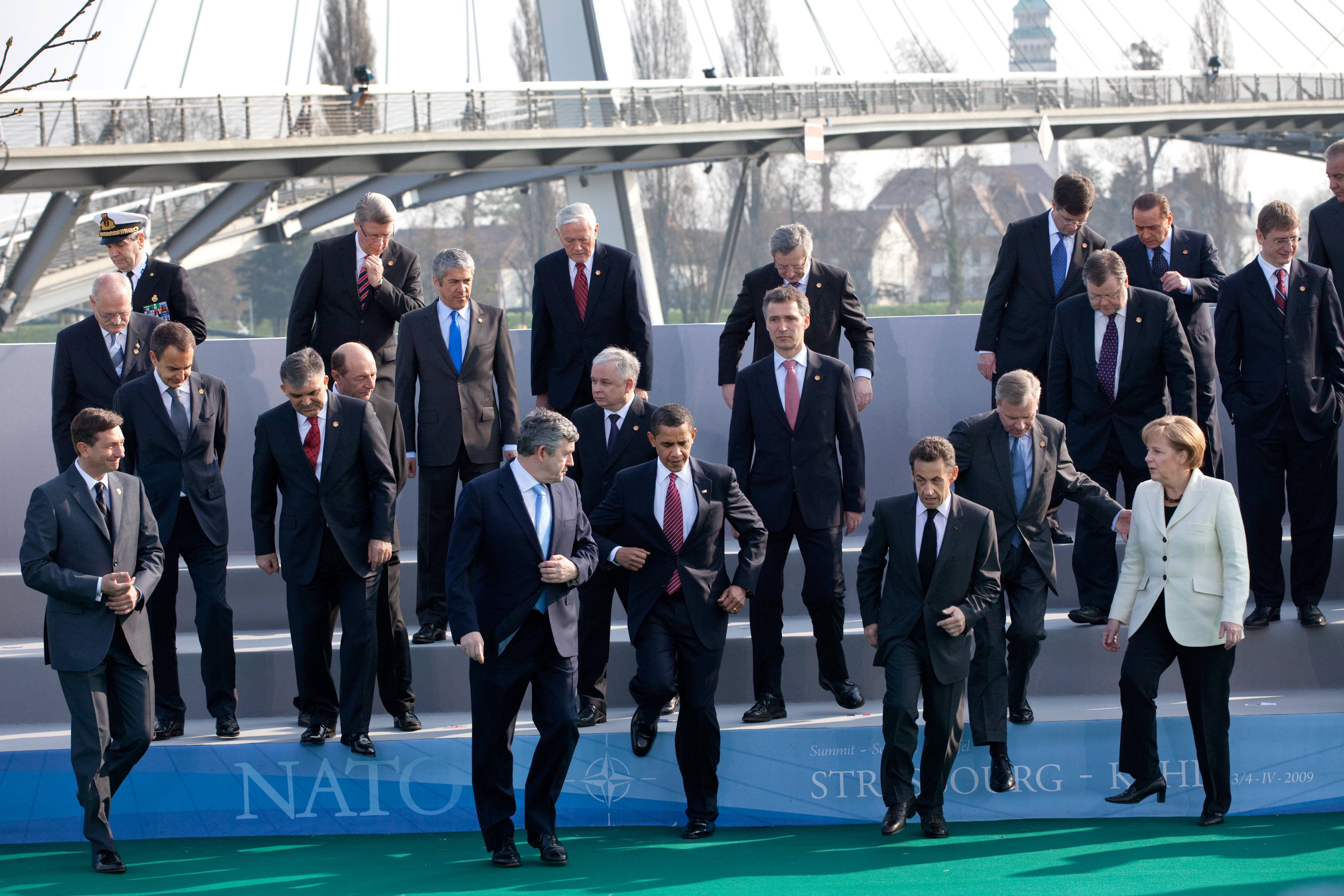 President Barack Obama, NATO Secretary General Jaap de Hoop Scheffer and fellow NATO leaders step down from a photo platform April 4, 2009, following their group photo at the NATO meeting in Strasbourg, France.